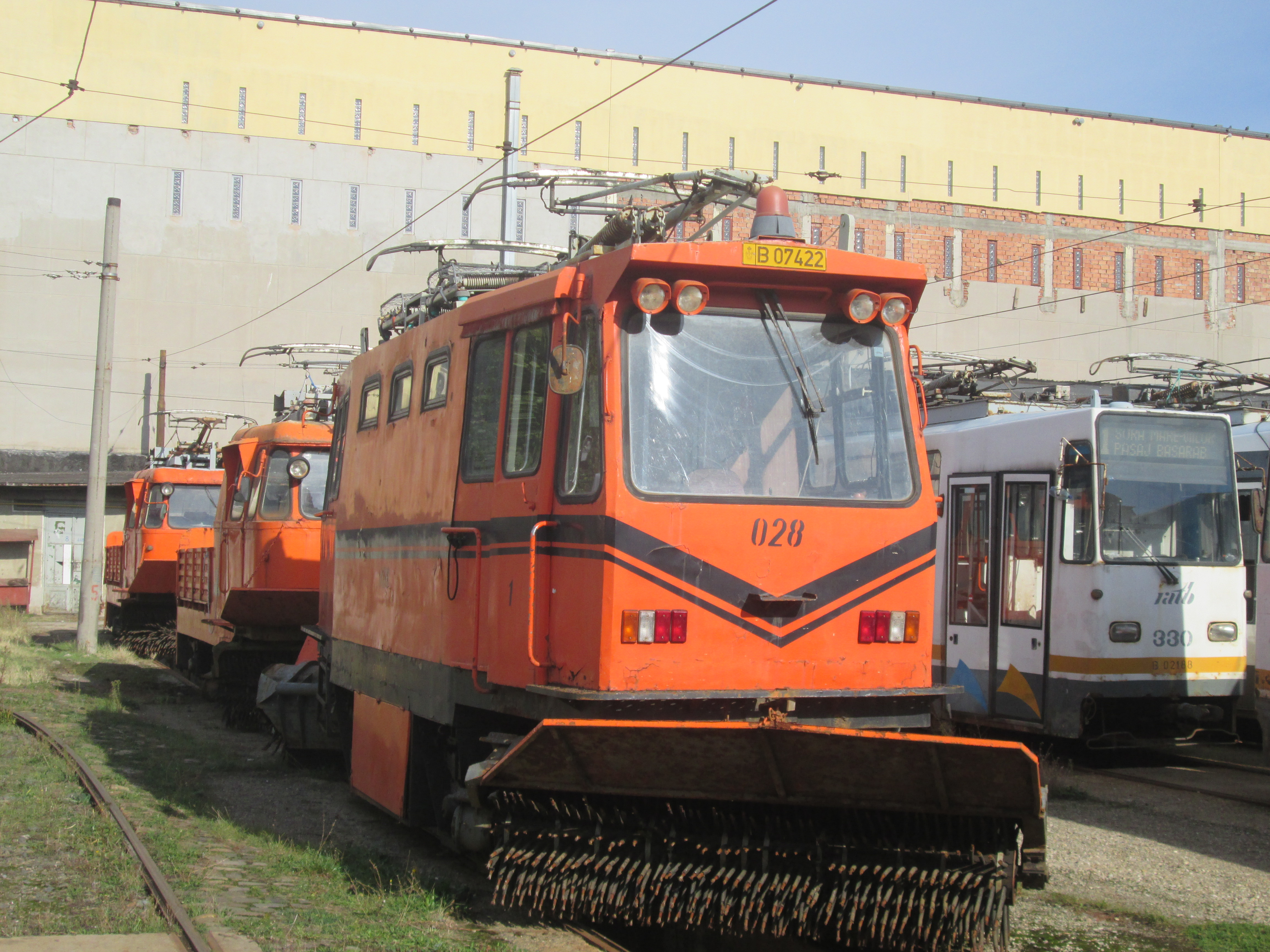 ITB 3VU "snowplow" tram number 028 in Victoria tram depot. Whilst the technical name is "snowplow", the tram actually uses a rotating broom to knock the snow away instead of an actual snowplow.